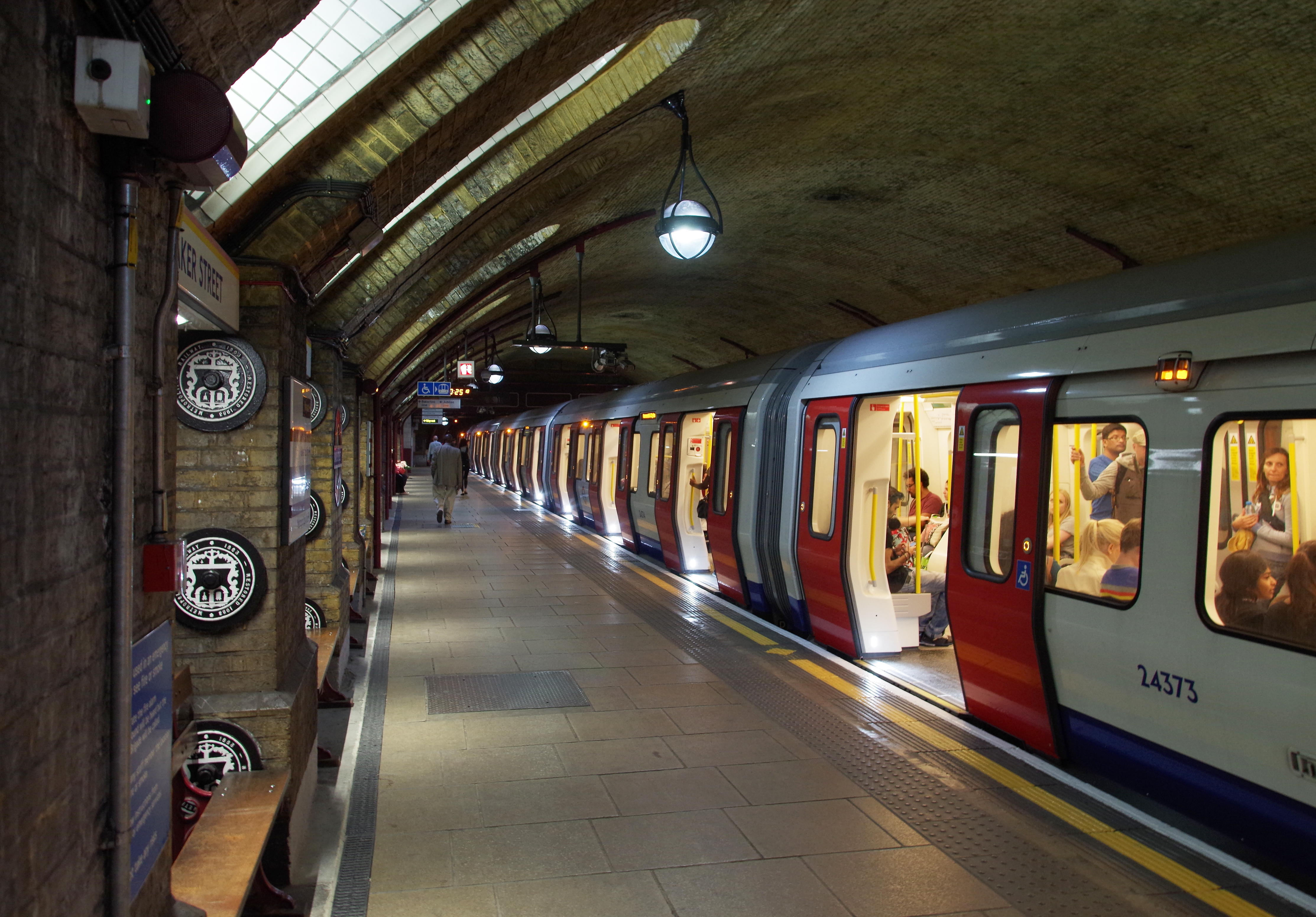 An eastbound London Underground S Stock train calls at Baker Street tube station.